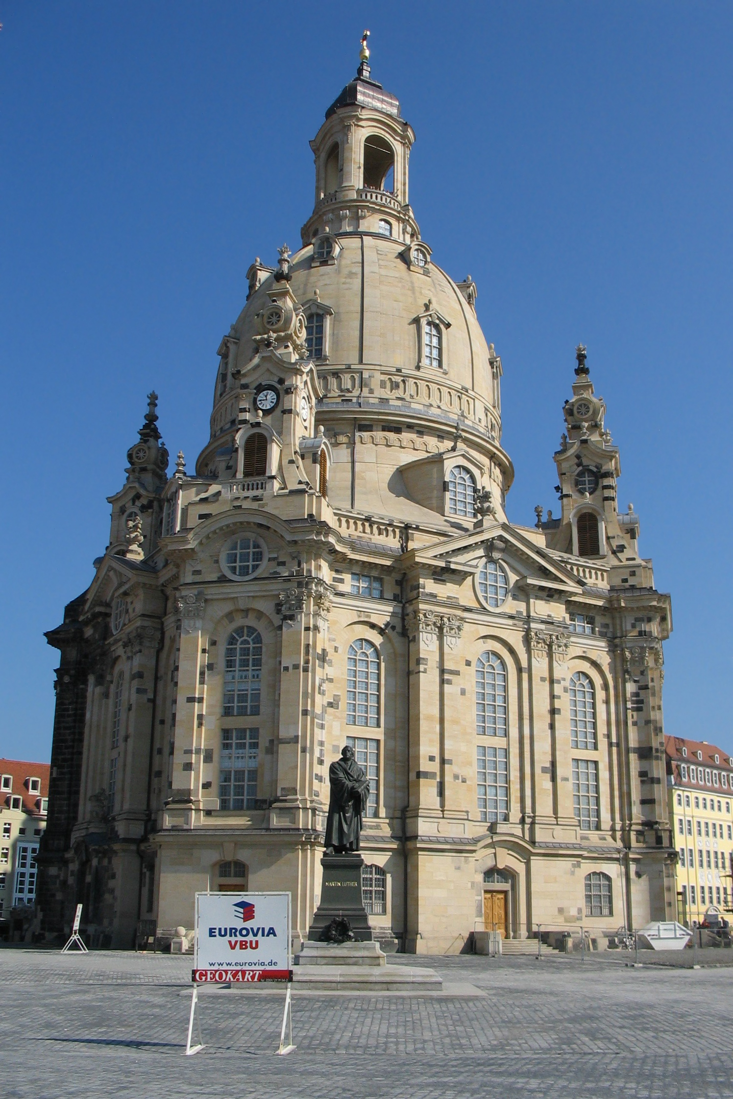 Dresden Frauenkirche (Our Lady's Church) taken in October 2005 by User:Phx de.